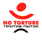 Committee Against Torture logo